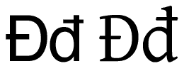 Latin letter D-stroke (Đ đ), majuscule and minuscule. Set in Helvetica 90 and Gentium 103 (matching x-heights).